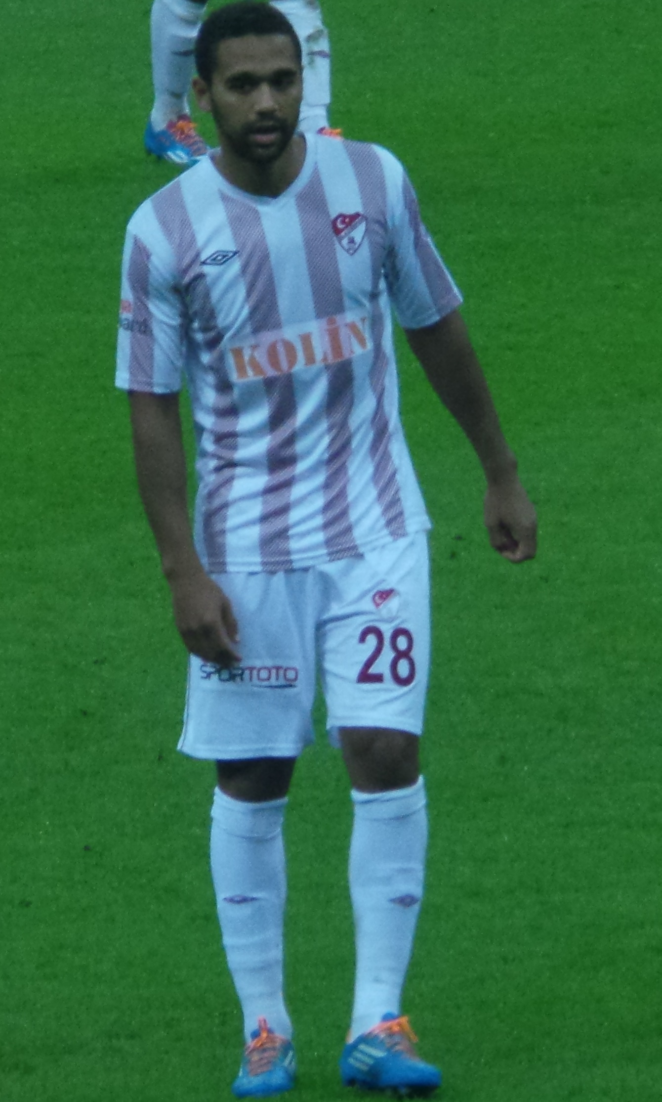 Luke Moore with Elazığspor